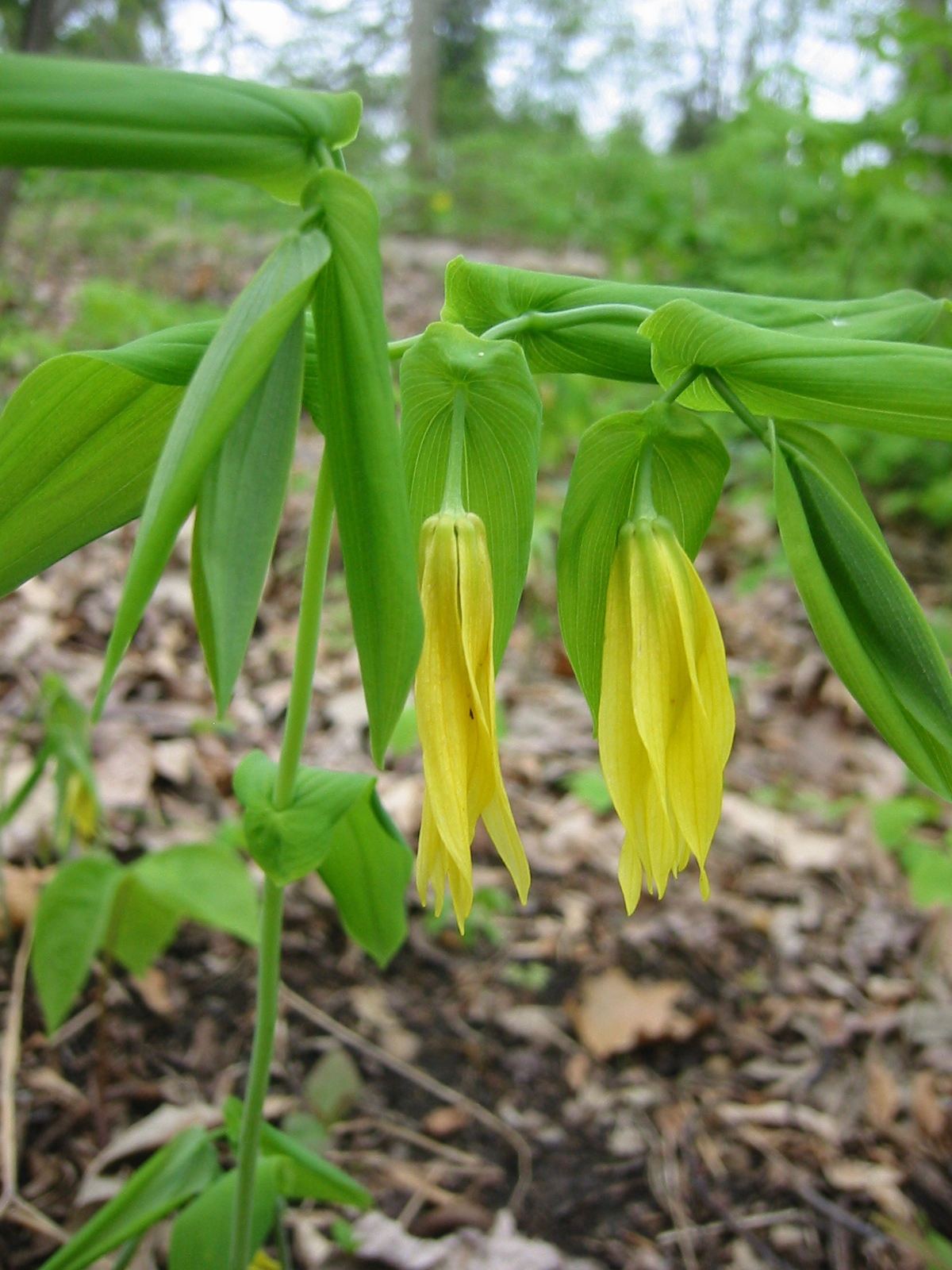 Uvularia grandiflora Bellwort or Big Merry Bells found growing on the trails at University of Michigan Matthaei Botanical Gardens.